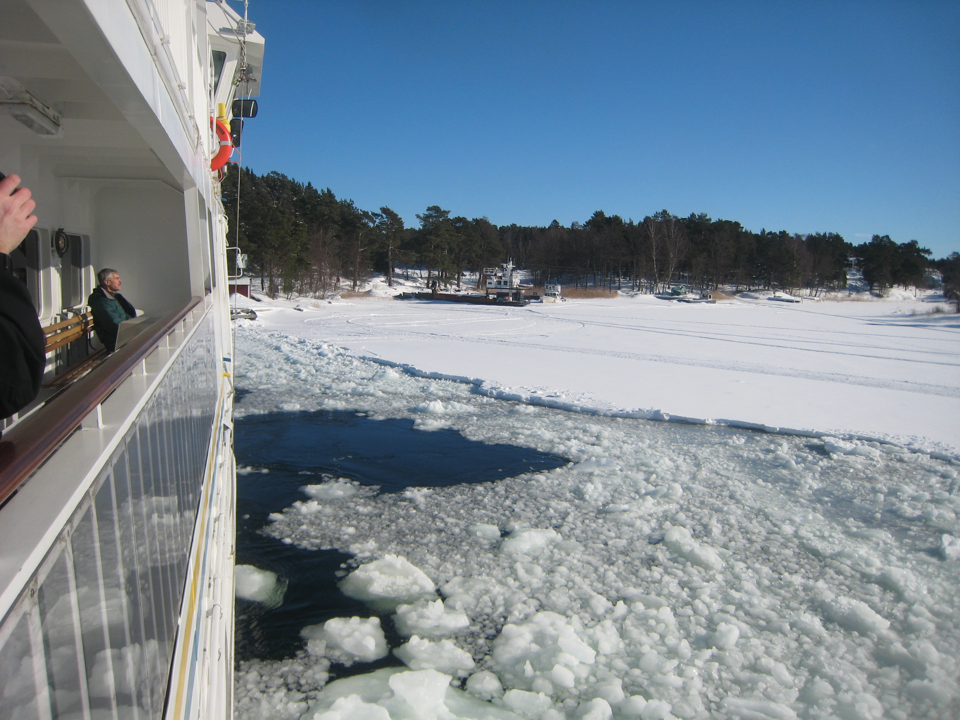 M/S Söderarm angör Lådna brygga.